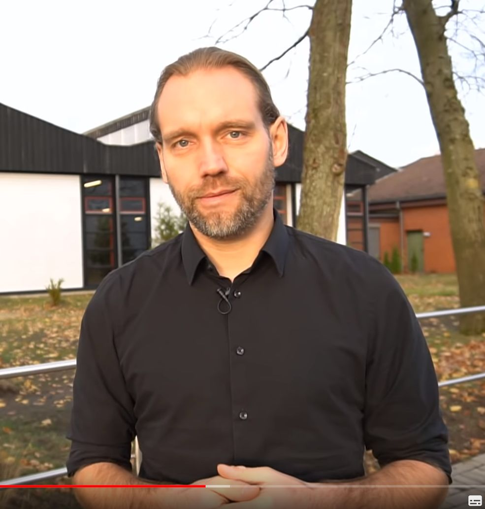 Ralf Raths, director of Panzermuseum Munster, Germany (still frame from a YouTube video made by the museum)